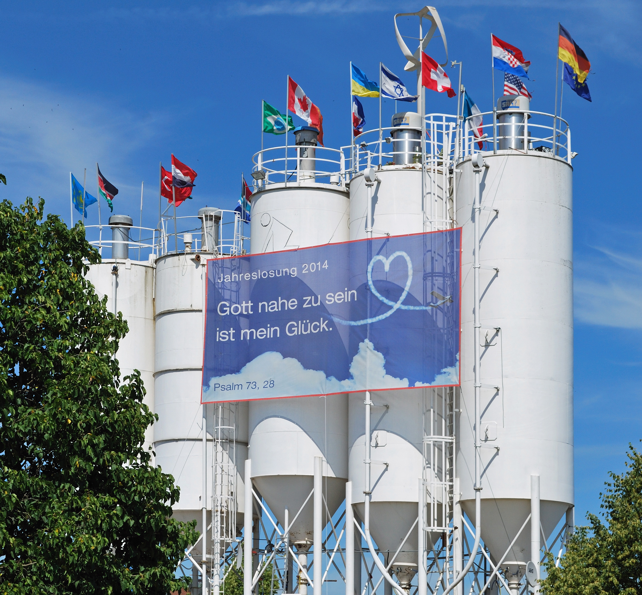 Text of the Watchword for the year 2014 (verse from Psalm 73,28 How wonderful to be near God), seen in the industrial area of Korntal in Southern Germany.